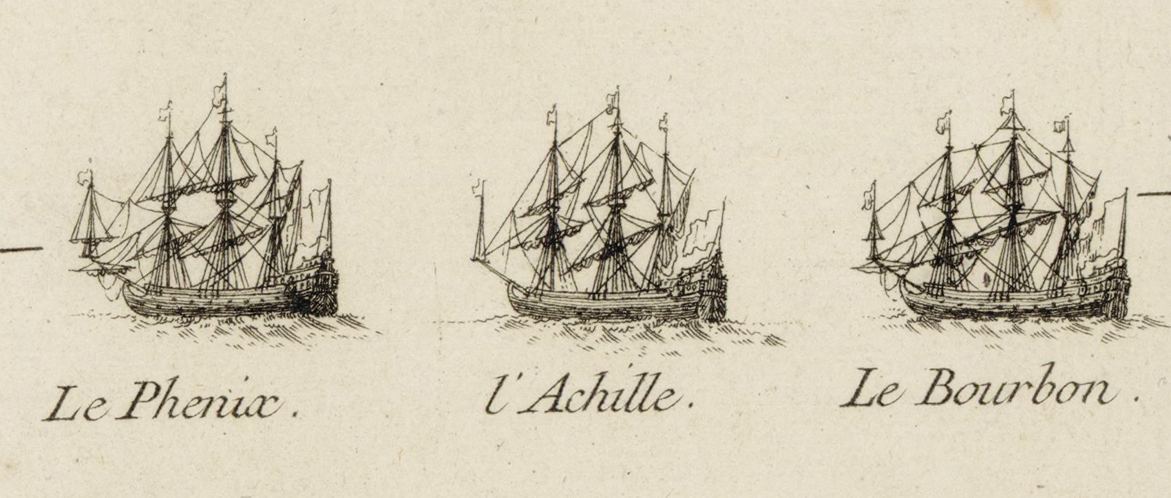 Three of the vessels of La Bourdonnais at Madras in 1746.